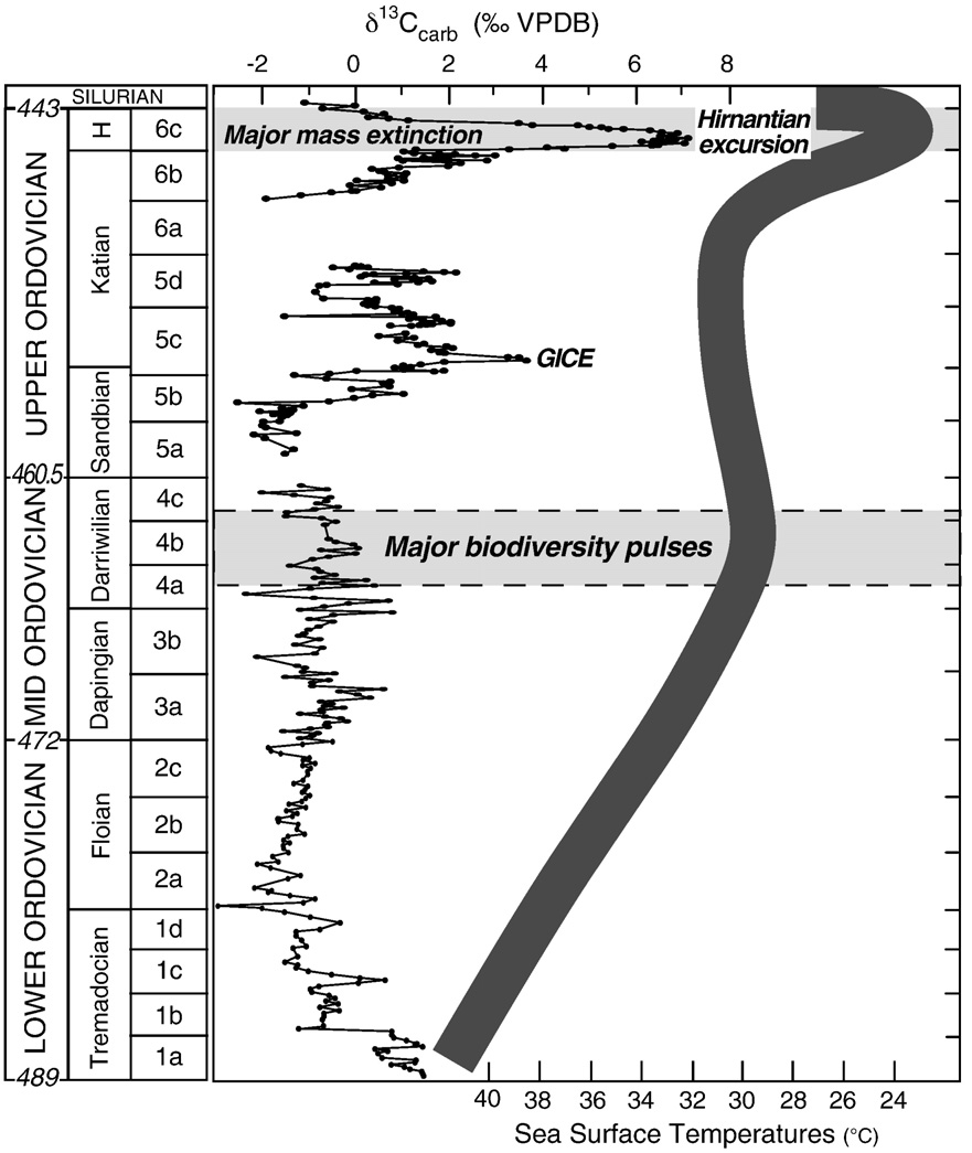 This shows the change in carbon 13 concentration, and sea surface temperatures over the entire Ordovician period. "Carbon isotopic (δ13Ccarb) variations in seawater through the Ordovician alongwith the conodont-apatite based tropical seawater temperature trend from Trotter et al. (2008). Ordovician δ13Ccarb data replotted from Gao et al. (1996), Kump et al. (1999), Saltzman (2005), and Saltzman and Young (2005). Timescale (with new global stage names; H, Hirnantian), major biodiversity and extinction intervals are from Webby et al. (2004)."